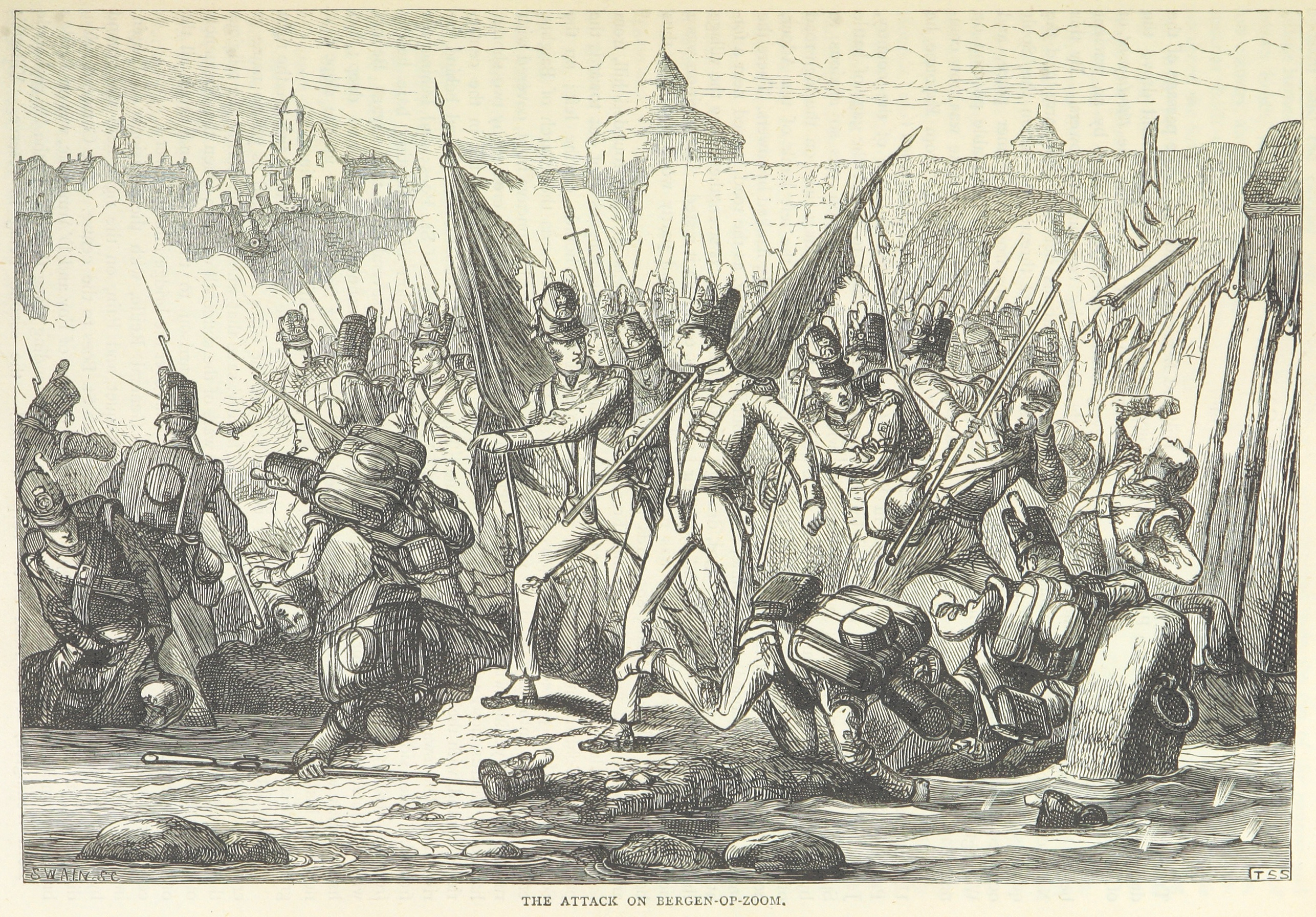 The ill-fated 1814 British Siege of Bergen op Zoom.